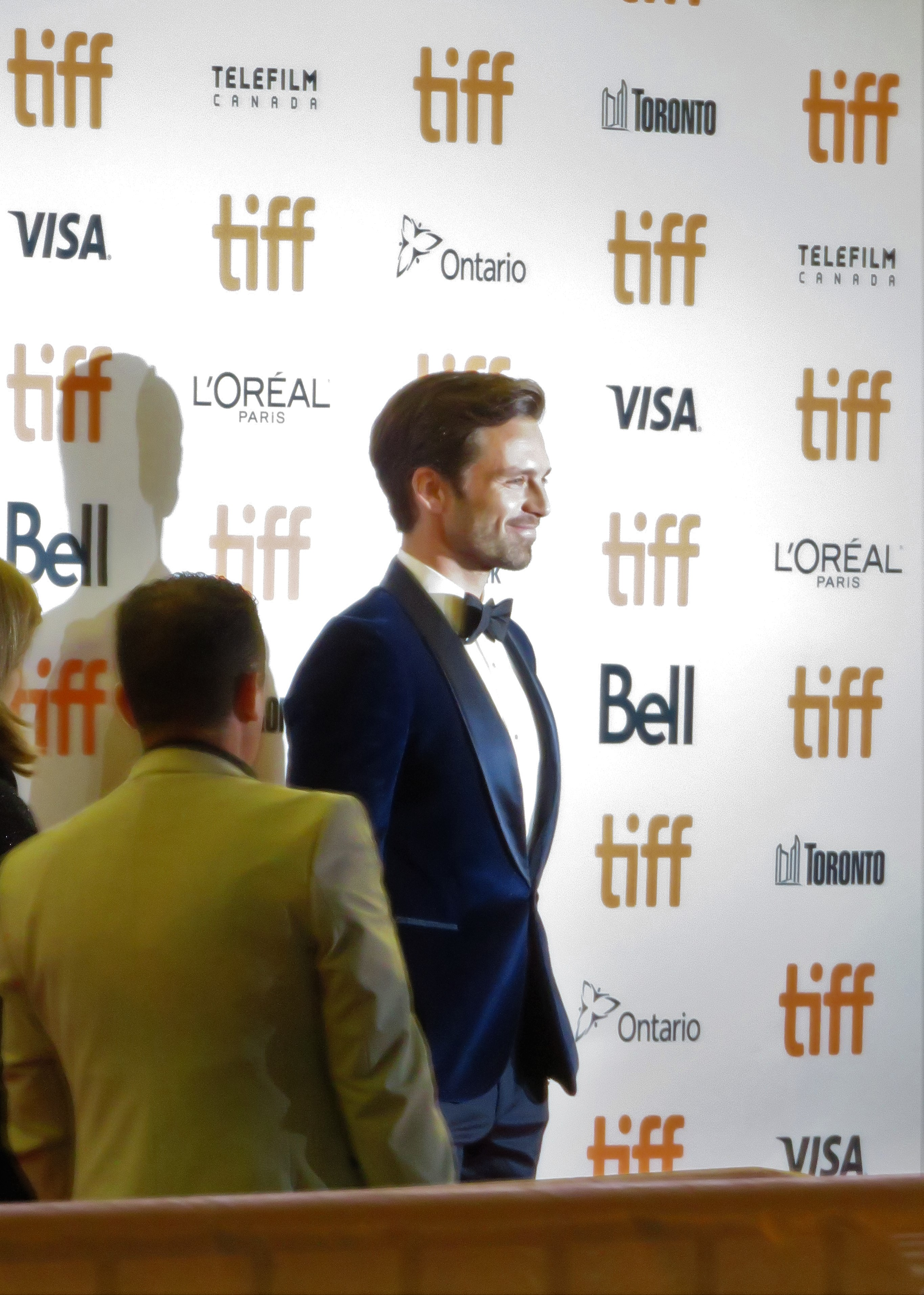 Sebastian Stan at the premiere of I Tonya, 2017 Toronto Film Festival